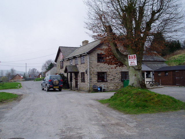 Sun Inn, St Harmon By the side of the B4518, on the northern outskirts of the village of St Harmon.